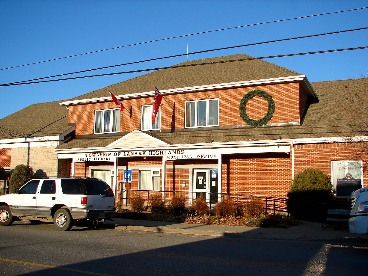 Town hall of Lanark Highlands Township in Lanark, Ontario, Canada